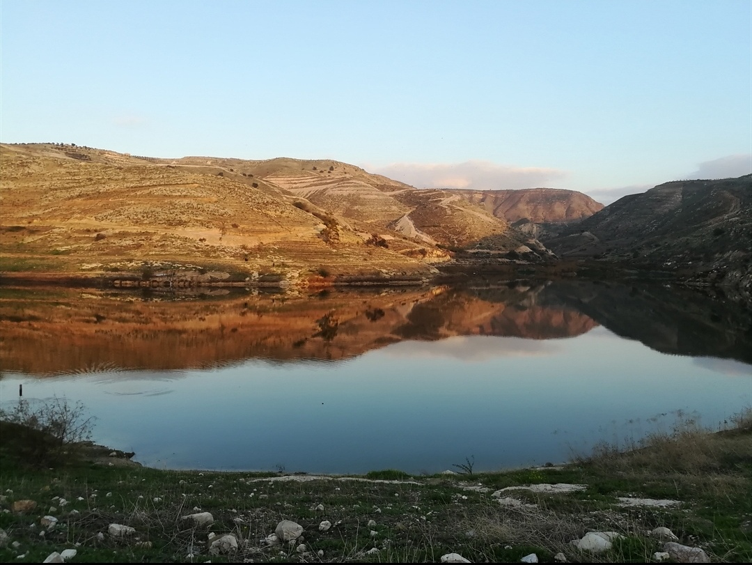 It is a dam located in Irbid Governorate and it was built for irrigation, agriculture and drinking